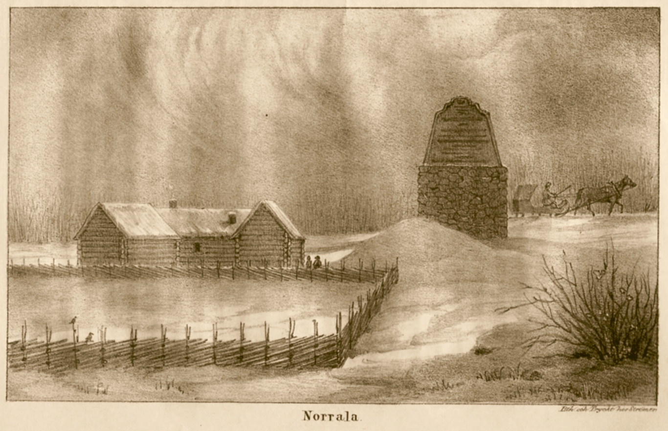 A view of Kungsgården in the parish of Norrala (province of Hälsingland, Sweden). In the front, the grave mount with the Vasa monument (the latter erected in 1773), and to the left the Kungsgården itself (Kungsgården no. 2), where the original royal mansion was situated during the Middle Ages.